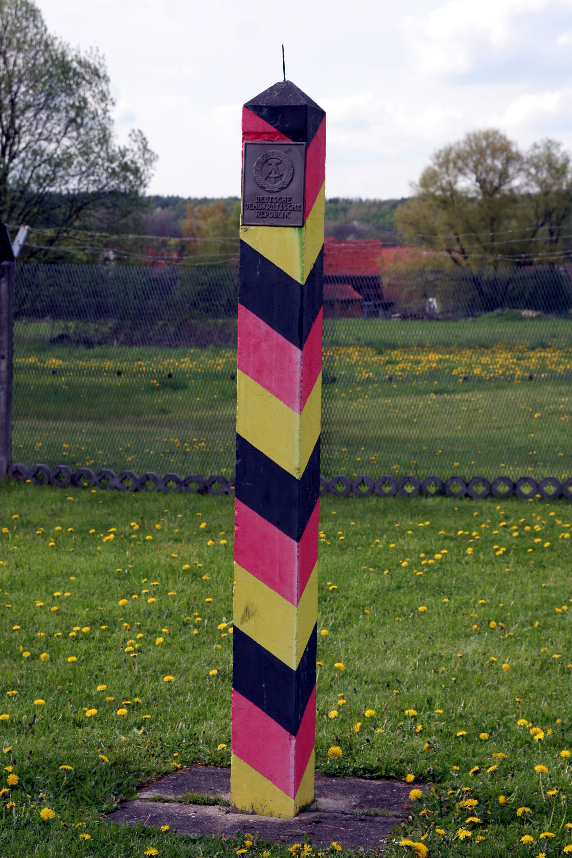 Boundary-post of the German Democratic Republic (GDR) between Kleinensee and Großensee